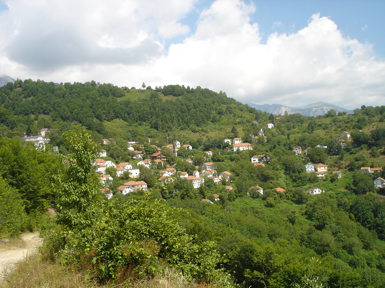 village of Papradishte in Azot region near Veles, Macedonia